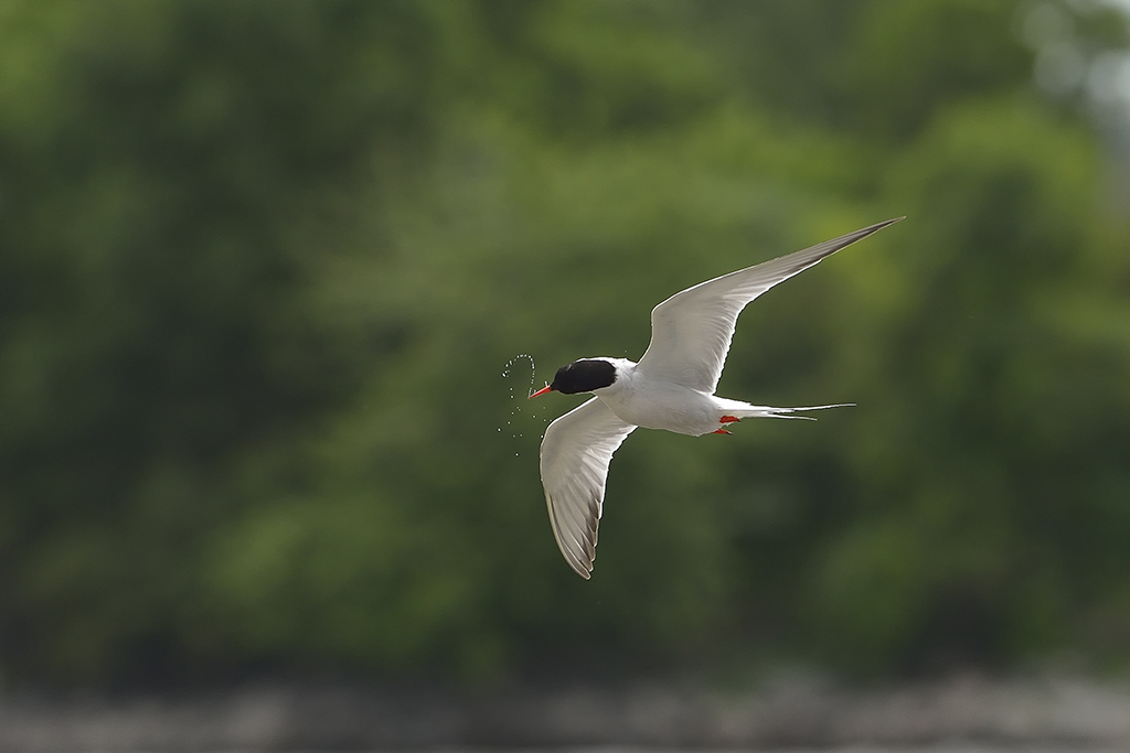 Common Tern ( Sterna hirundo), picture taken on the Rivière des Prairies, Quebec, Canada.